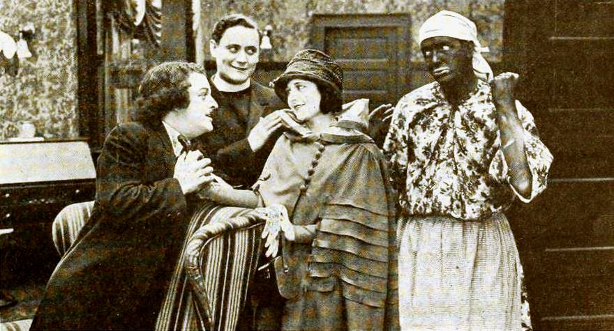 Still from the American comedy film Oh, Susie, Be Careful (1919) with Thornton Edwards, Roscoe Karns, Dorothy Devore, and Earle Rodney (in blackface). The American film industry commonly used white actors in blackface until the end of the 1930s. On page 1664 of the June 14, 1919 Moving Picture World.